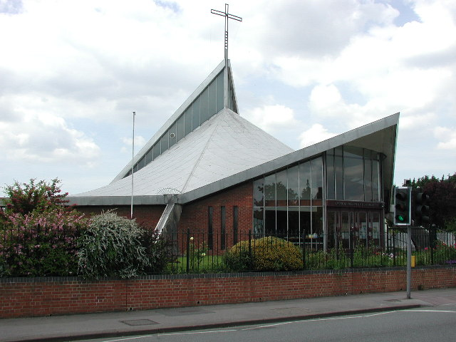 Roman Catholic Church of St Bernadette, Wells Road, Hengrove, Bristol